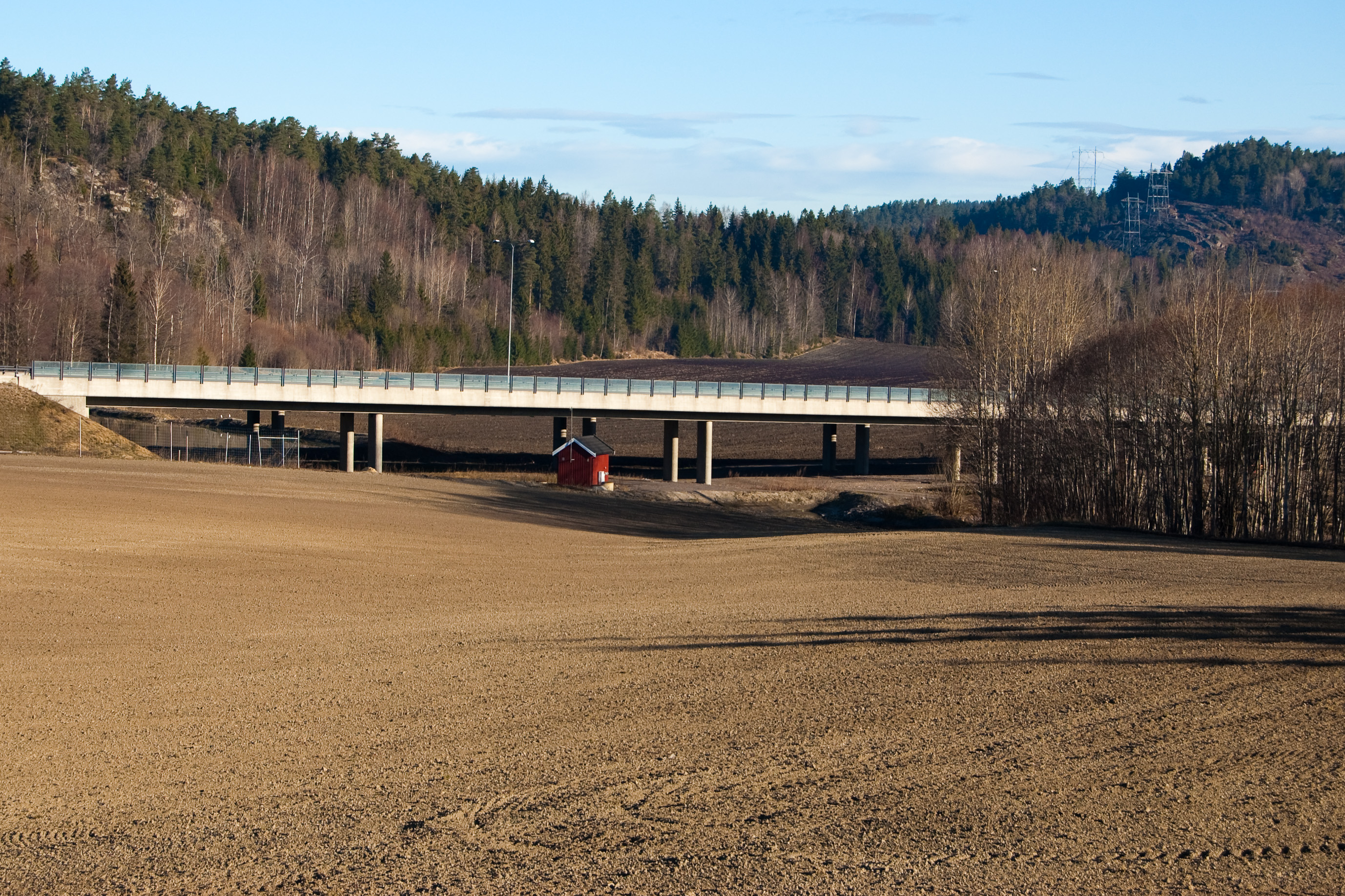 Ekebergmyrbrua bridge on national road E18 in Tønsberg, Vestfold, Norway.